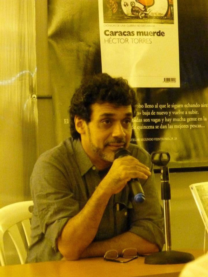 Portrait by Mariana Aznar